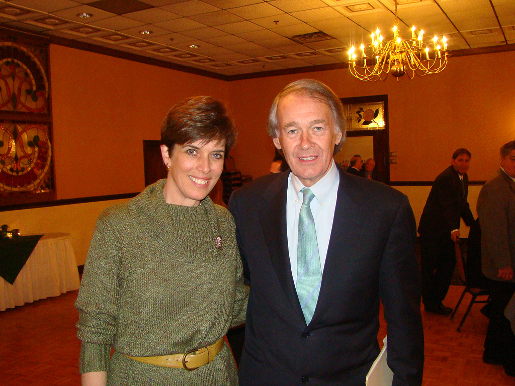 Massachusetts State Representative Katherine Clark with U.S. Representative Ed Markey at the 2008 Everett Friendly Sons of St. Patrick Irishman of the Year Dinner.